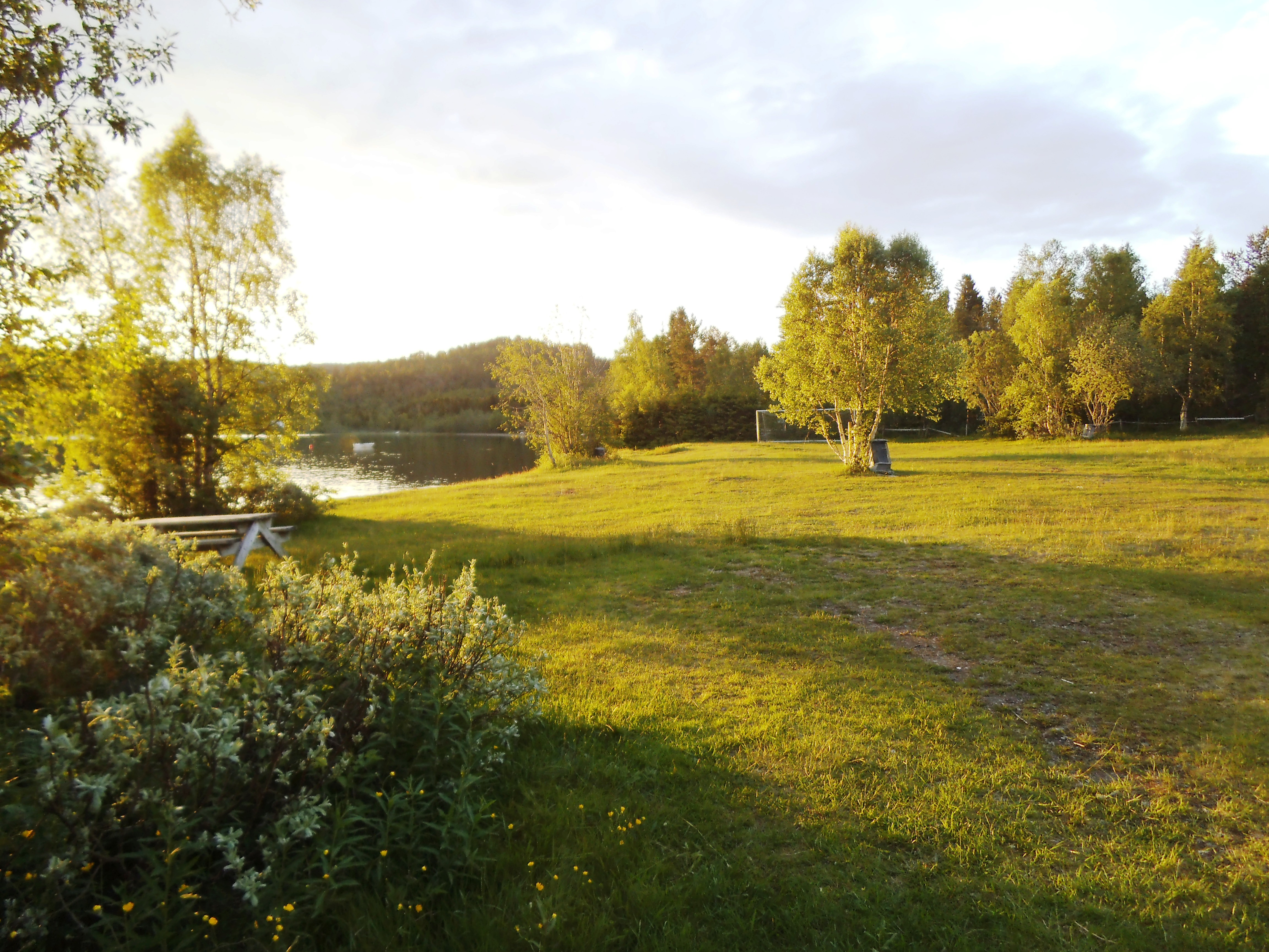 A campsite in Gåsbakken, Melhus, Norway.